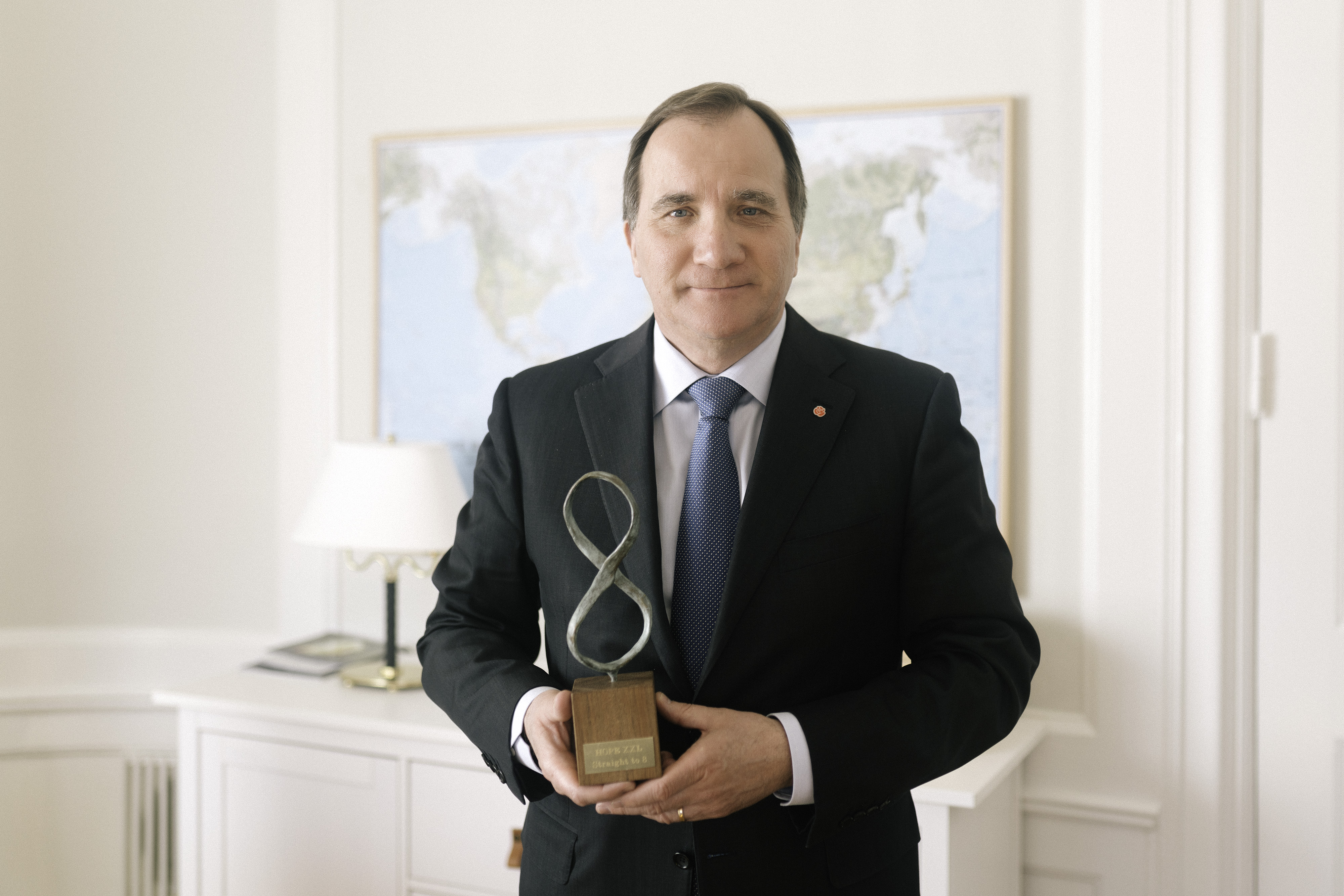 Stefan Löfven, Prime Minister of Sweden, with HOPE XXL CUMULA